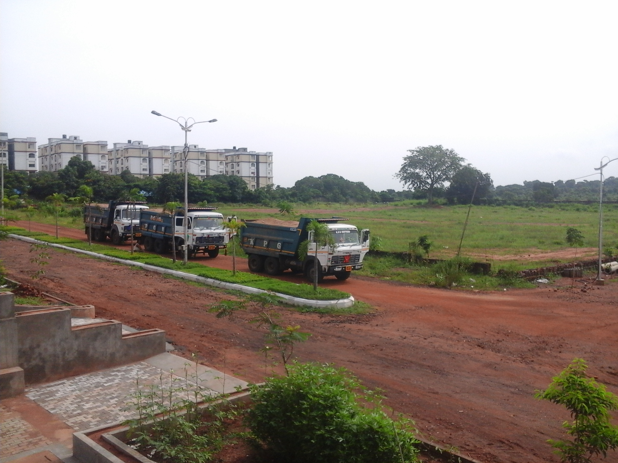 Picture shows a delivery of sand to Bridge County, near Diwancheruvu, Andhra Pradesh India. The empty area in the background is to be made into a cricket stadium, and the buildings seen in the background are D-Type apartment complexes - i.e., 2 bedroom apartments.